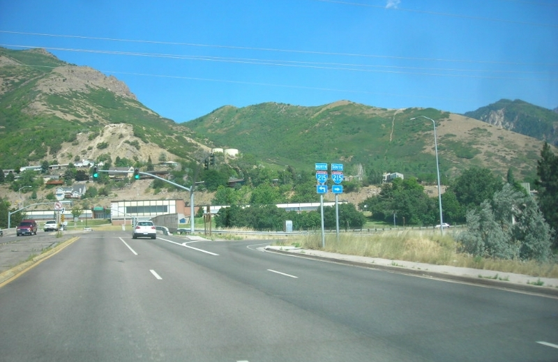 Utah State Route 171 approaching Interstate 215